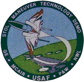 Cropped from NASA Photo number: EC93-042025-3, shown the patch of the Short Take Off and Landing/Maneuver Technology Demonstrator (STOL/MTD) program of USAF